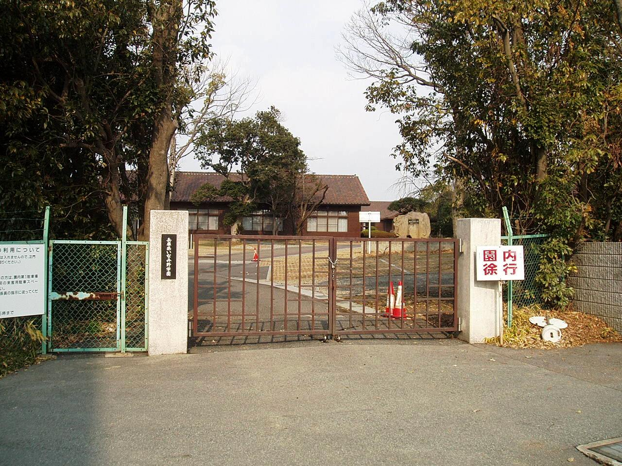 Main entrance to Hyogo-ken Inamino Gakuen, a lifelong educational institution for elderly persons, located in Kakogawa, Hyogo, Japan.